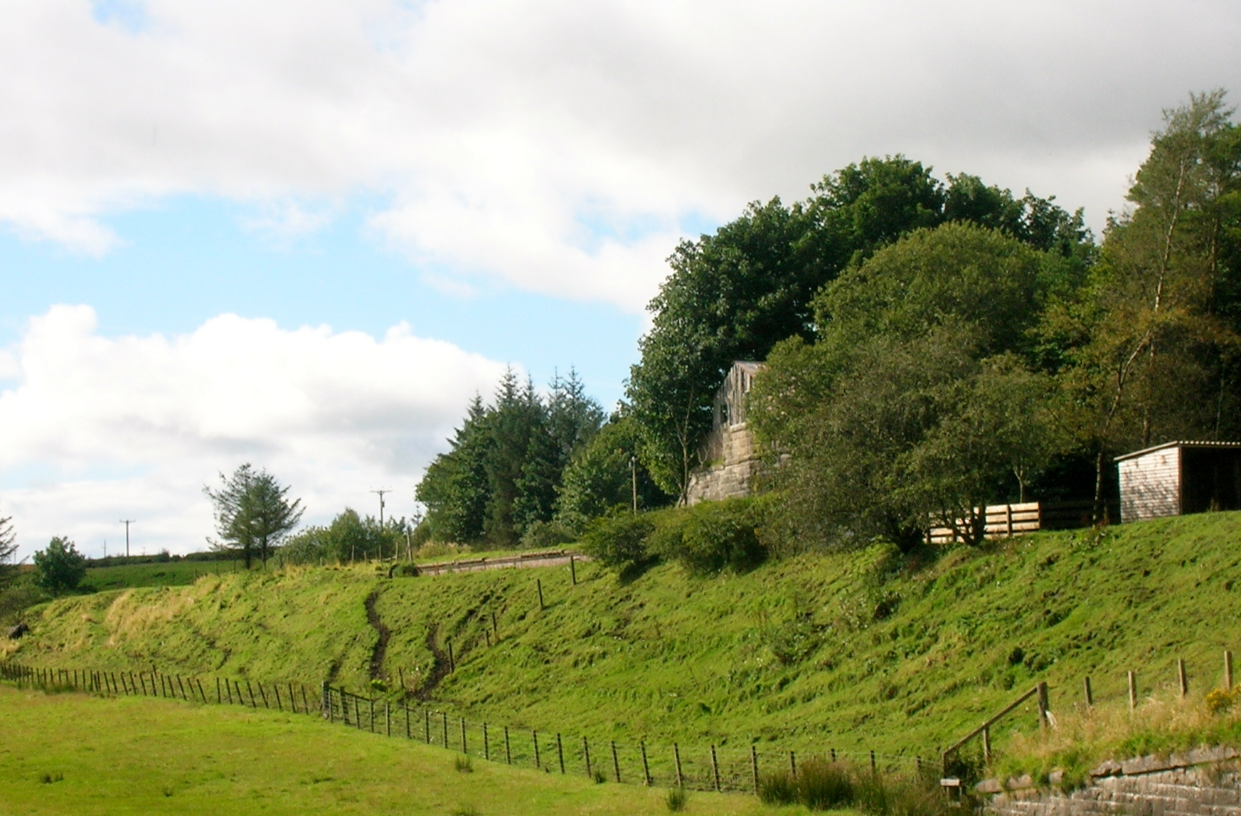 Drumclog railway station site, showing old platform. South Lanarkshire, Scotland.